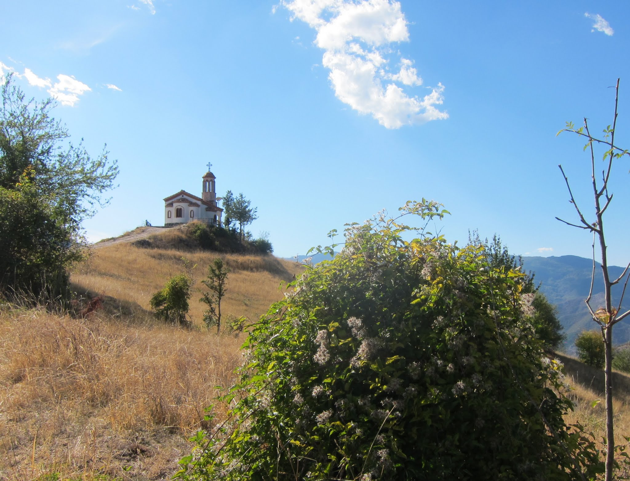 Chapel St. Spas Laki